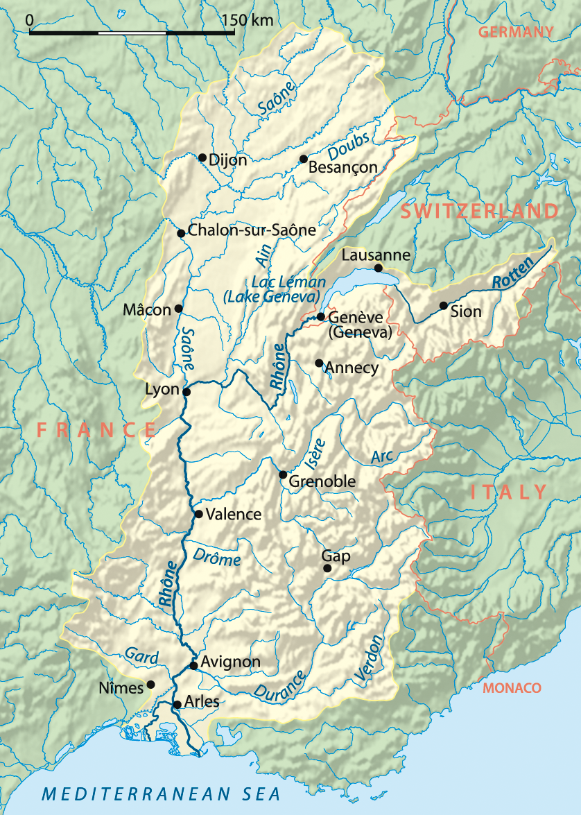 Drainage basin of Rhône River, English version